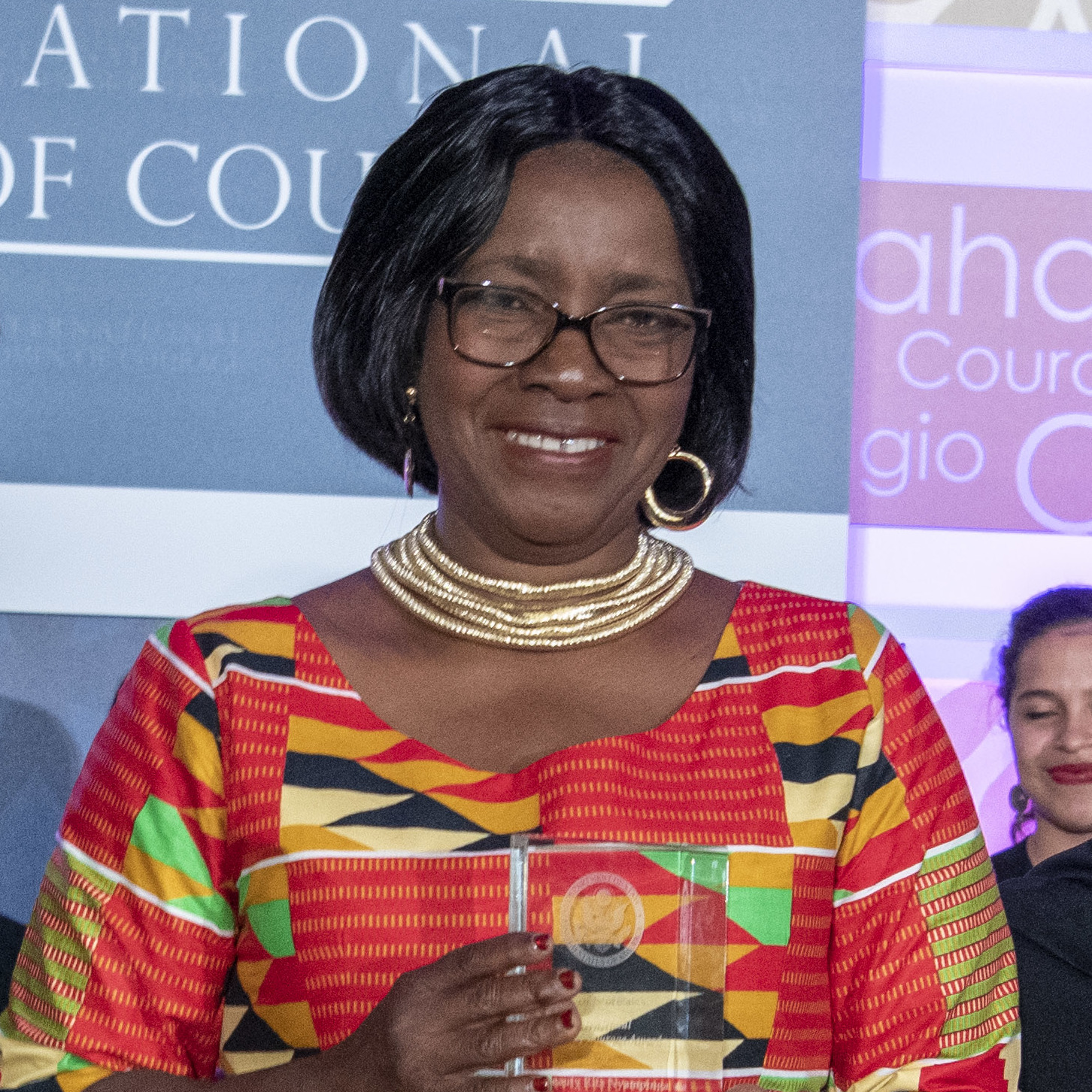 Secretary of State Michael R. Pompeo, First Lady of the United States Melania Trump, and awardee Dr. Beauty Rita Nyampinga of Zimbabwe pose for a photo, at the Department of State on March 4, 2020. [State Department photo by Freddie Everett/ Public Domain]